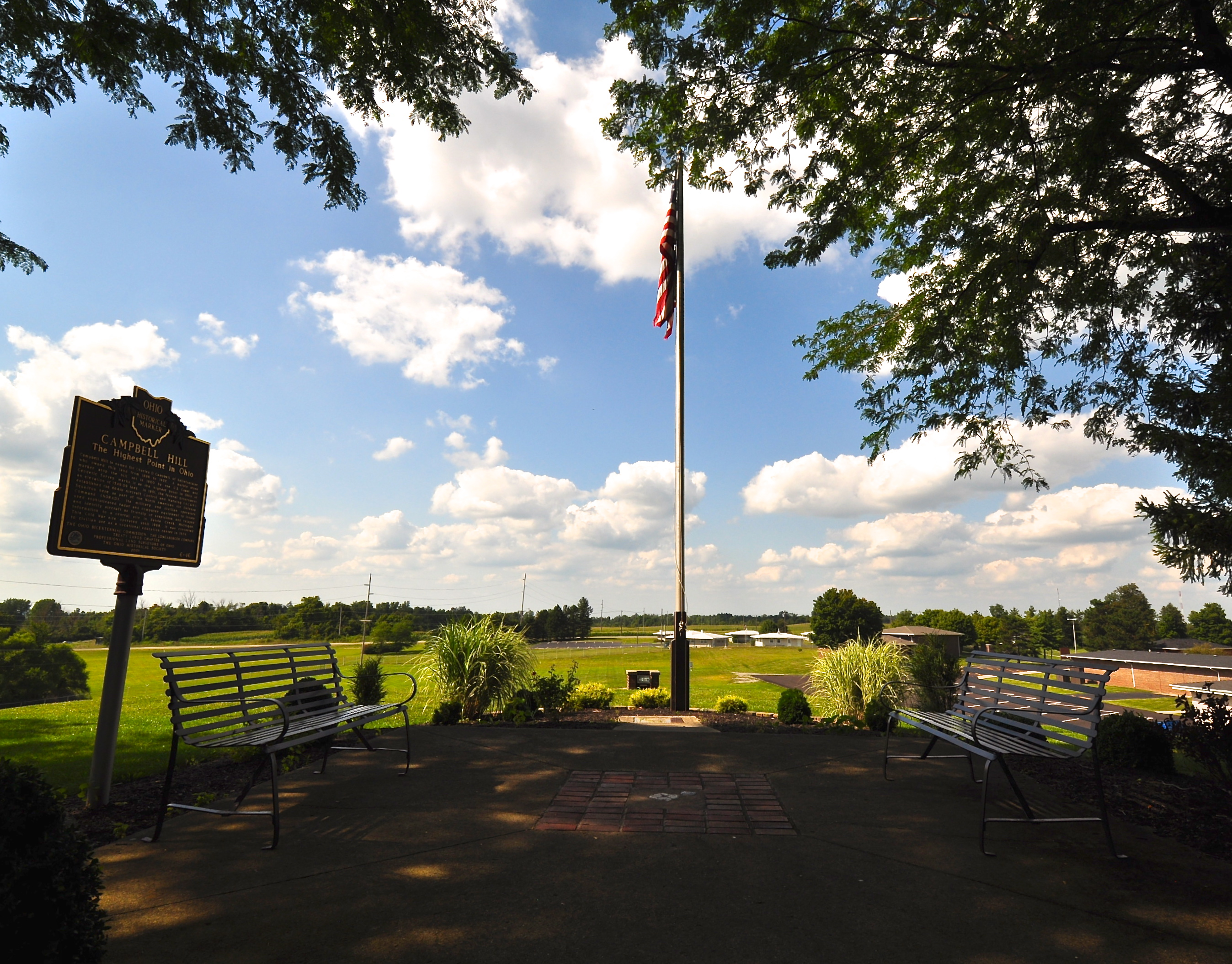 The highest natural point in Ohio with an elevation of 1550ft (472 m). Located at Bellafontaine, Logan County, Ohio.